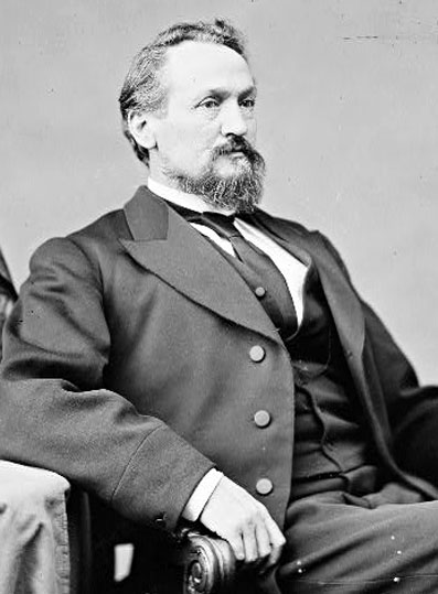 Selucius Garfielde, Congressional Delegate from Washington Territory